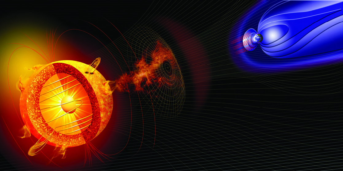 Solar storm impacting Earth and its magnetic shield.